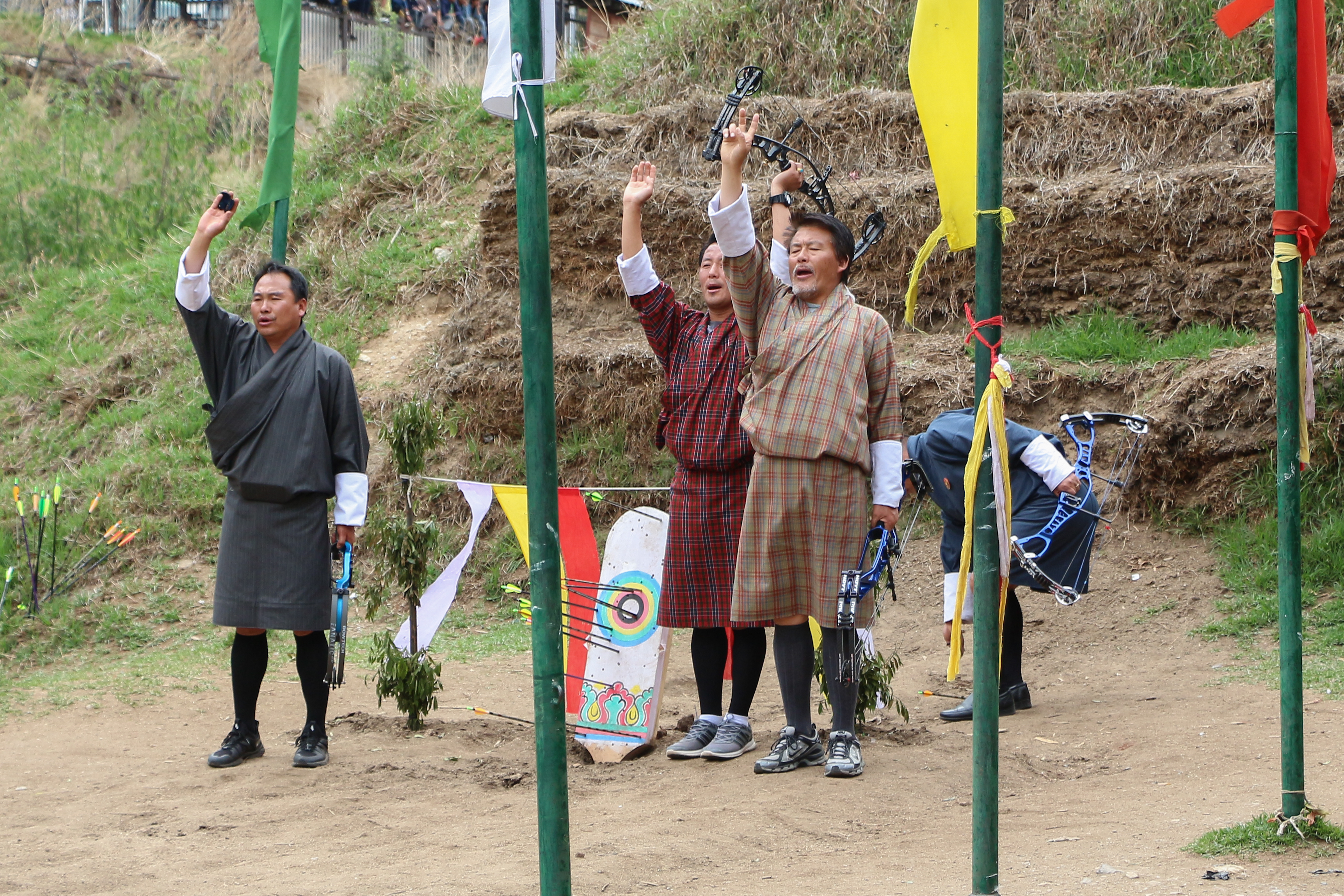 Changlimithang Archery Ground, Thimphu, Bhutan